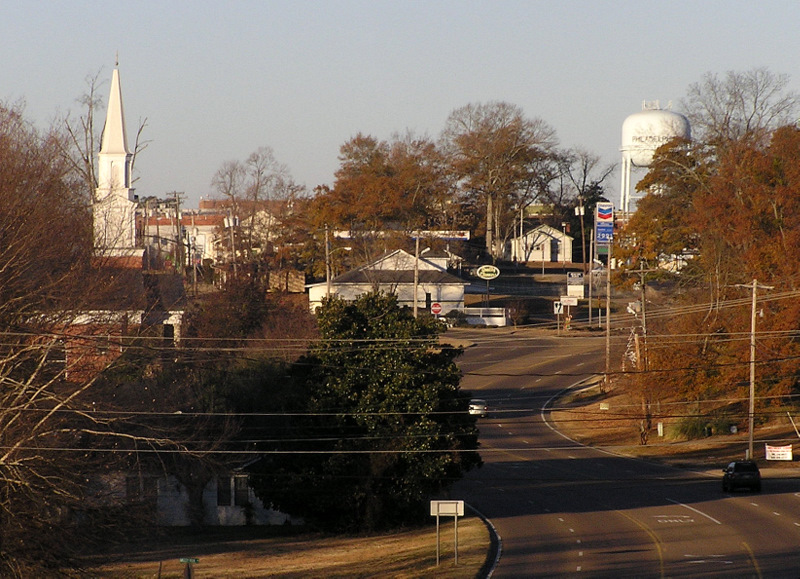 Philadelphia, Mississippi looking west from Highway 16, showing First United Methodist Church and the city water tower.